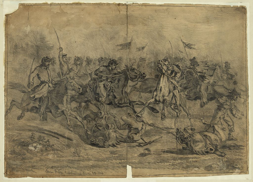 "Cavalry Charge Near Brandy Station, Virginia", a drawing by Edwin Forbes of the Battle of Brandy Station